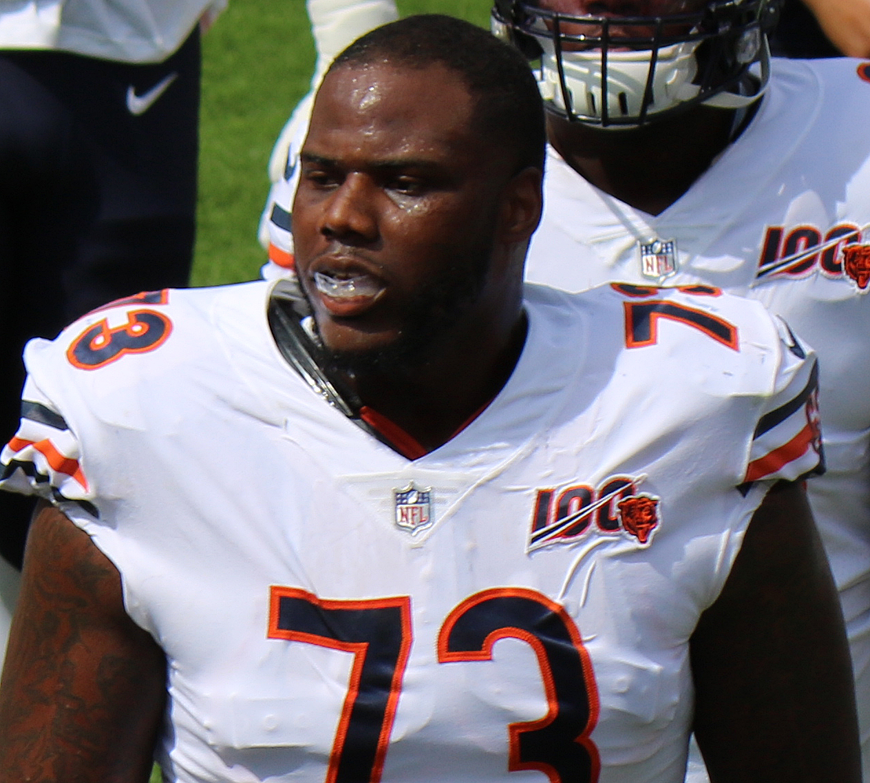 Cornelius Lucas, a National Football League player.